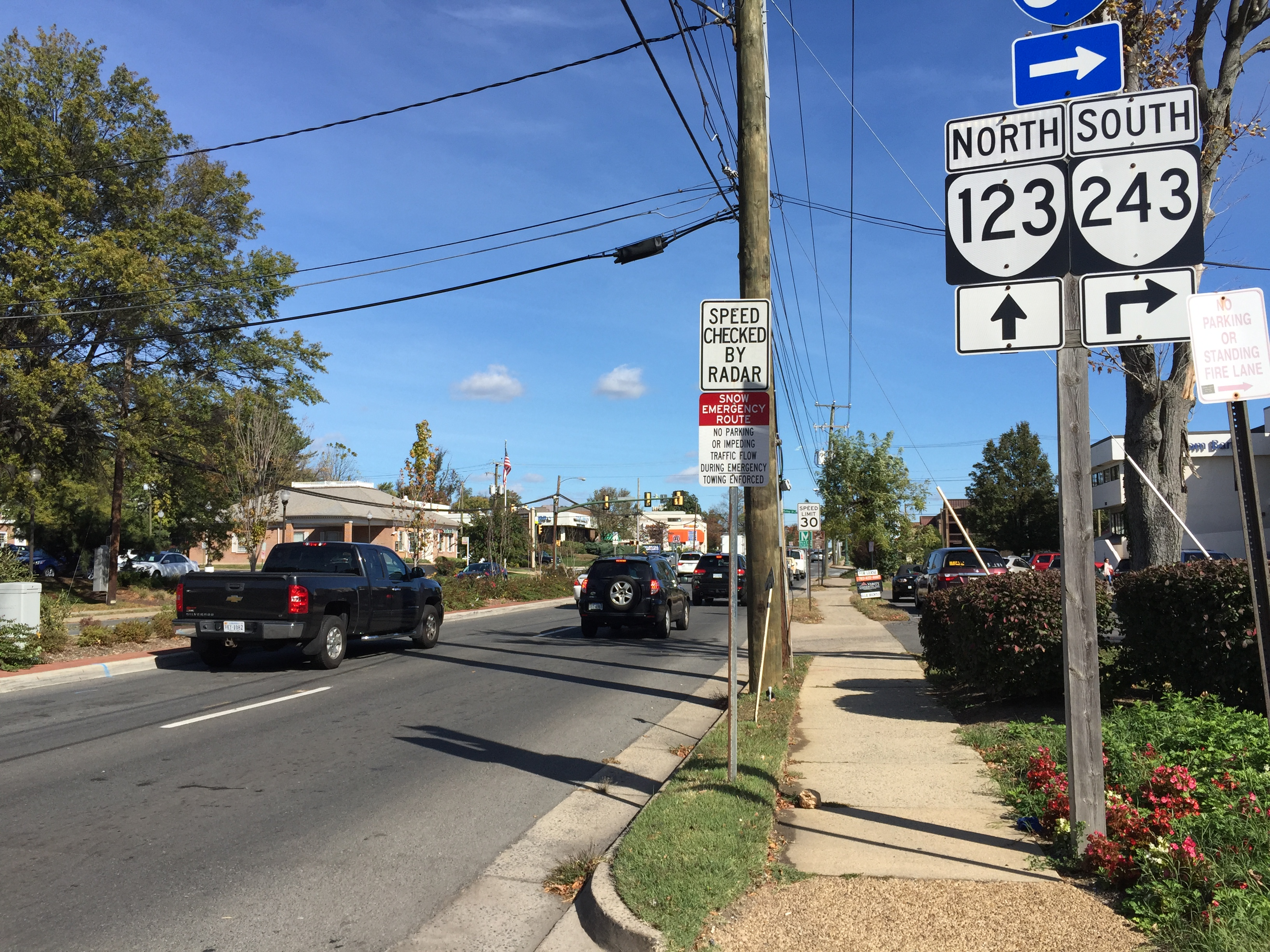 View north along Virginia State Route 123 (Maple Avenue) at Virginia State Route 243 (Nutley Street) in Vienna, Fairfax County, Virginia